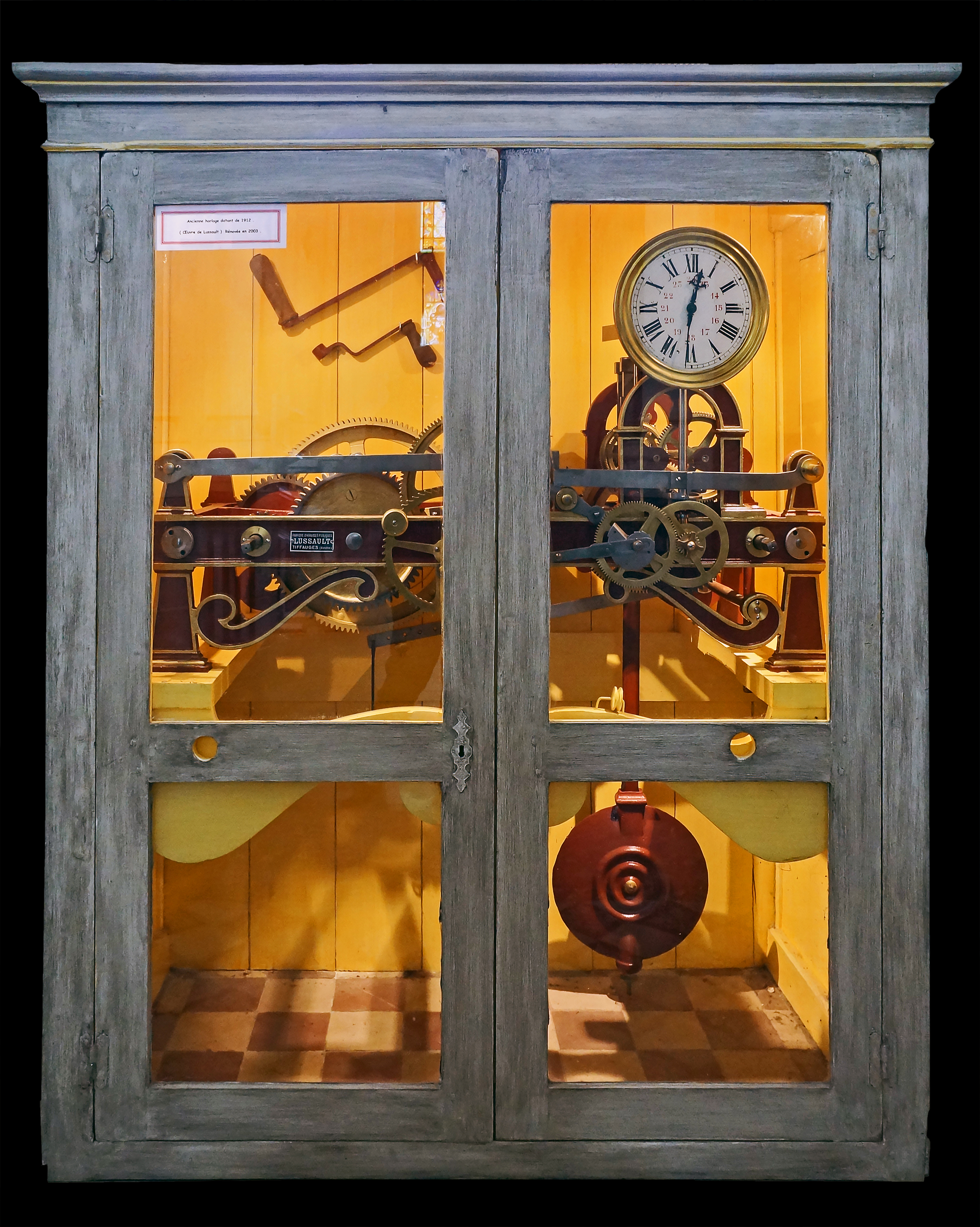 Clock with pendulum mechanism, factories "Lussault" 1912, (renovated in 2003), in Saint-Peter church, Talmont-Saint Hilaire.- Vendée. France